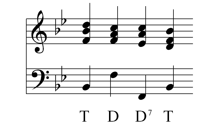 example of musical cadence T-D-D7-T, revised